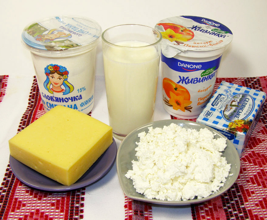 Ukrainian dairy product